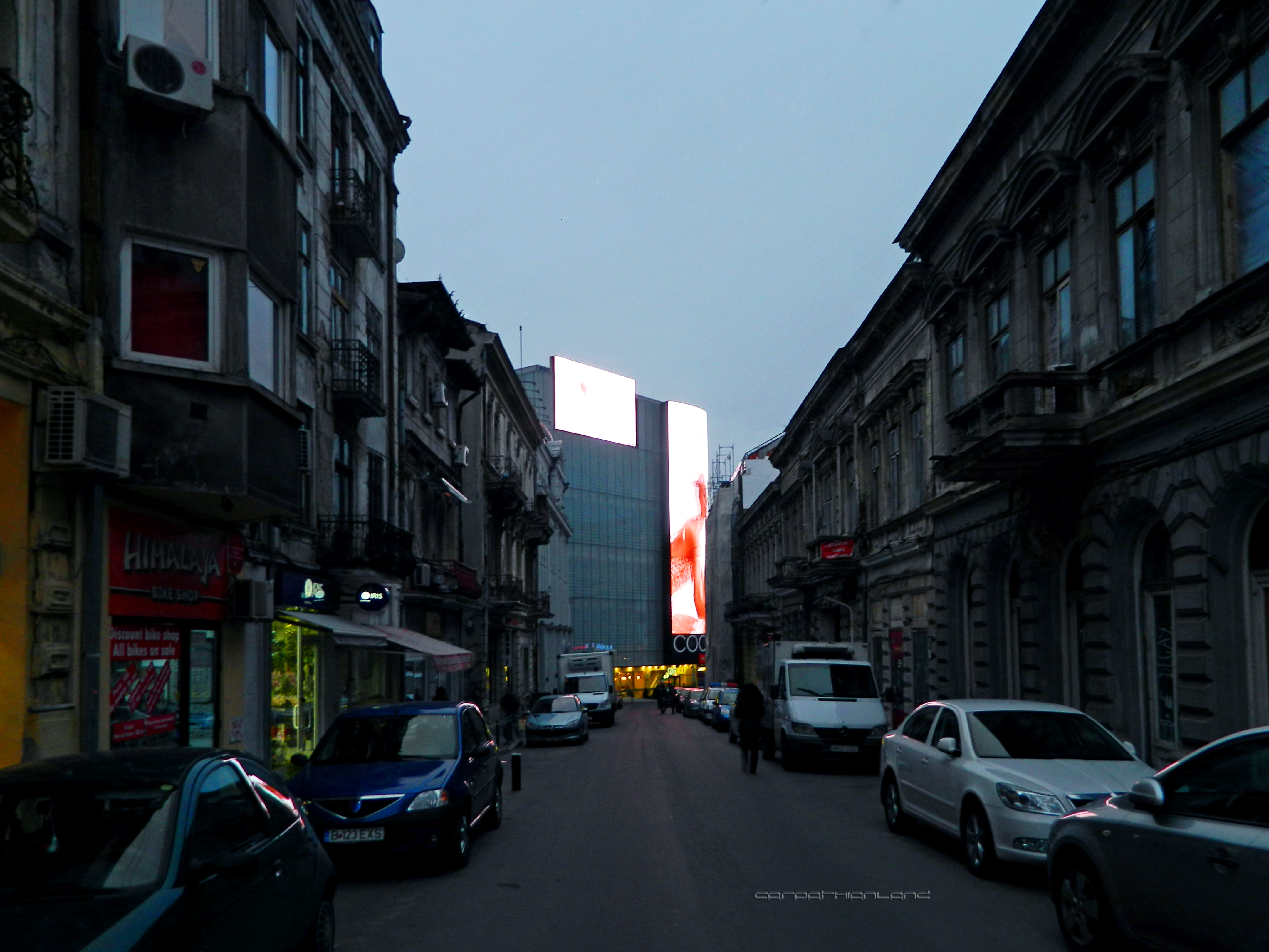 Calea Moșilor Street, Bucharest